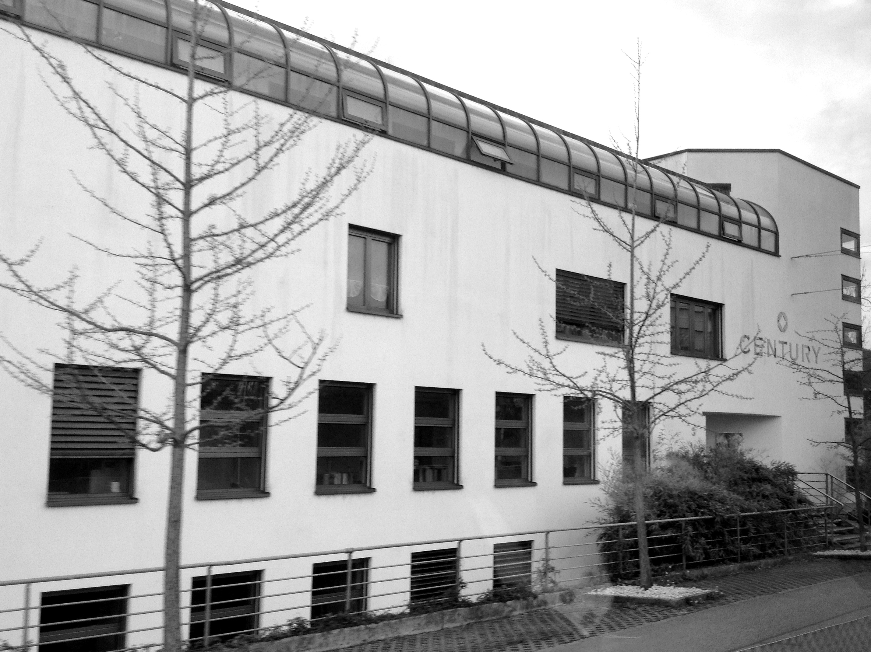 Century factory, Swiss watchmaking in Nidau (Biel)